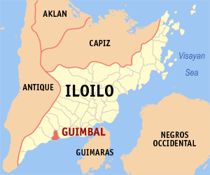 Map of Iloilo showing the location of Guimbal